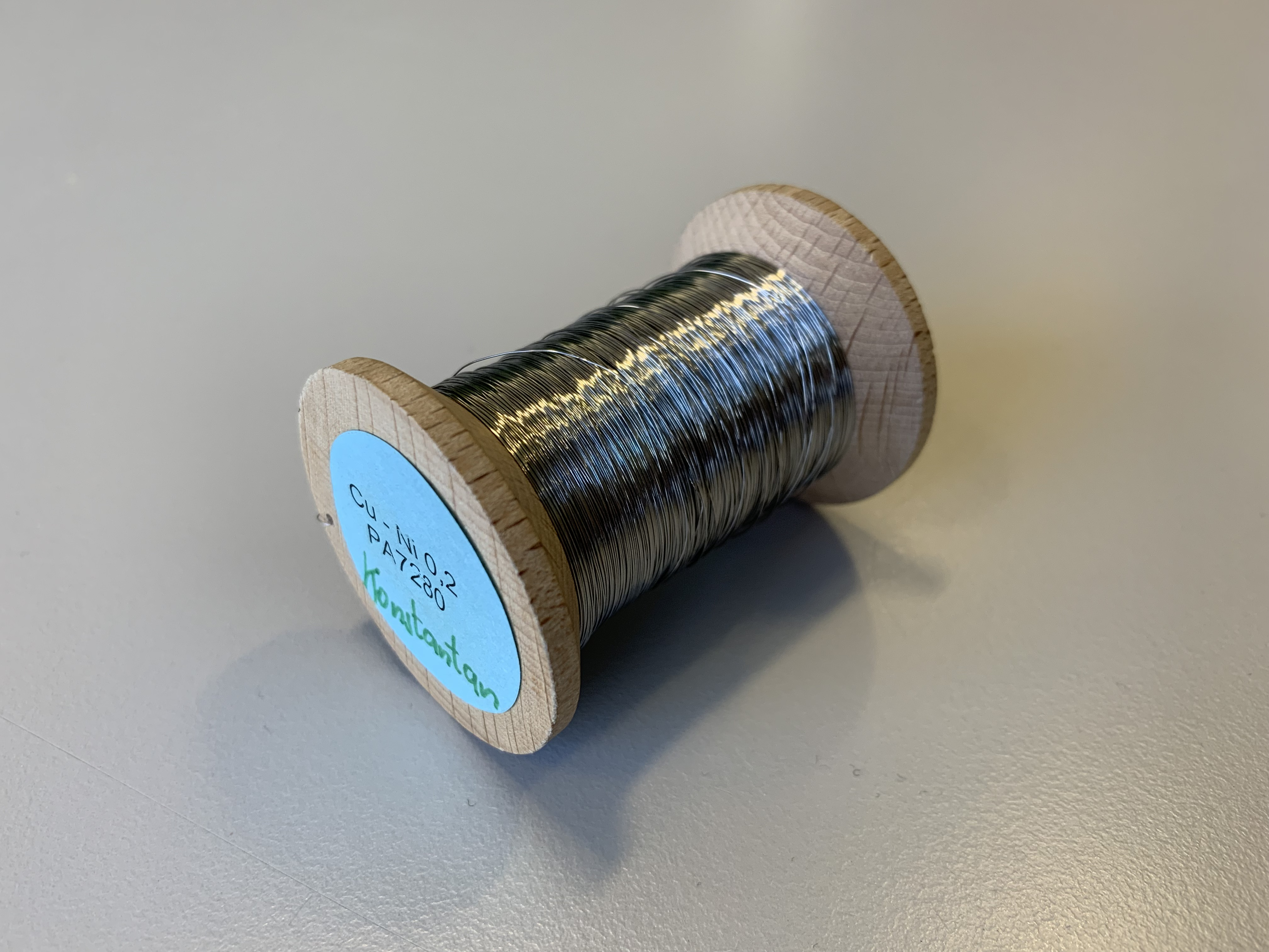 Konstantan wire 0.2 mm diameter